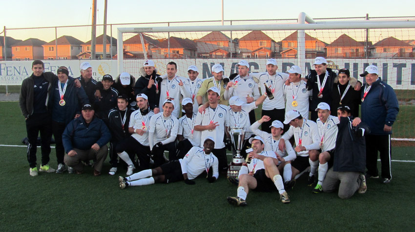 SC Waterloo team celebrating CSL Championship in 2013.